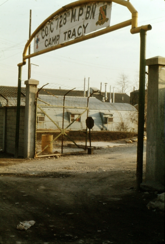 Gate to Company C, 728 MP Bn, Camp Tracy, Yongsan, Seoul, Korea, 1971